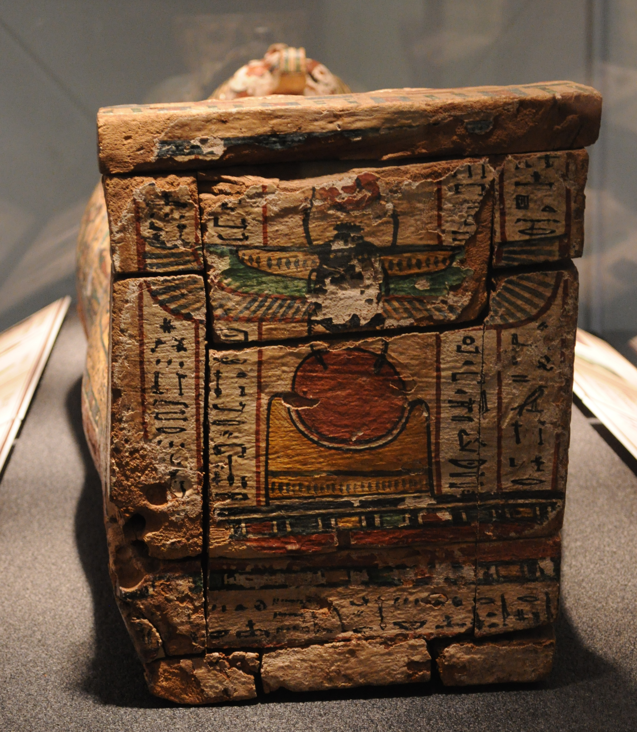 Foot of inner coffin of the mummy of Ankh-Wennefer, Washington State History Museum.